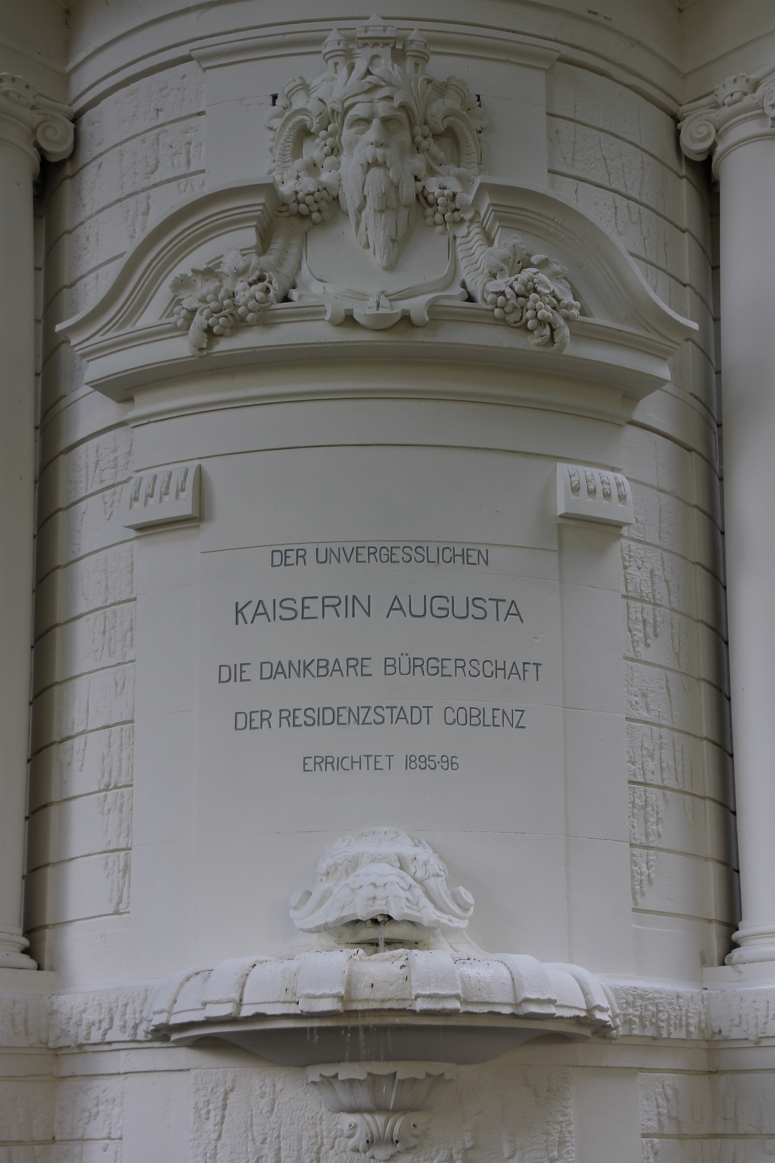 Augusta-Monument in the rhine park of Koblenz